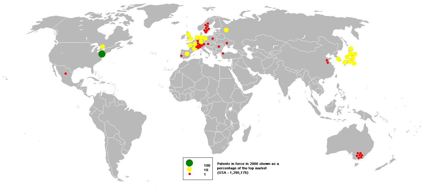 This bubble map shows the global distribution of patents in force in 2000 as a percentage of the top market (USA - 1,295,176). This map is consistent with incomplete set of data too as long as the top producer is known. It resolves the accessibility issues faced by colour-coded maps that may not be properly rendered in old computer screens. Data was extracted on 16th June 2007. Source - Based on Image:BlankMap-World.png